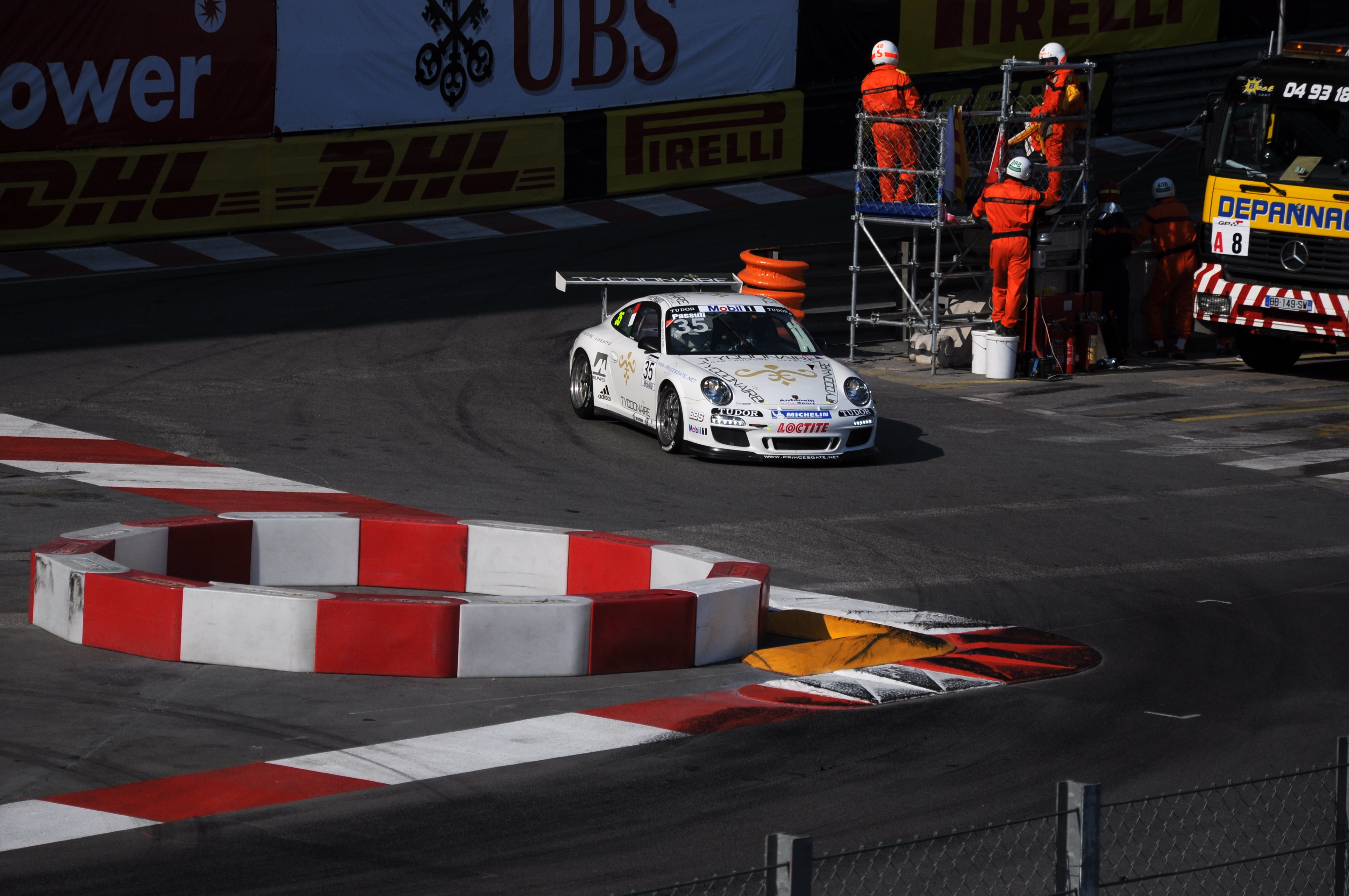 Monaco Porsche Racing